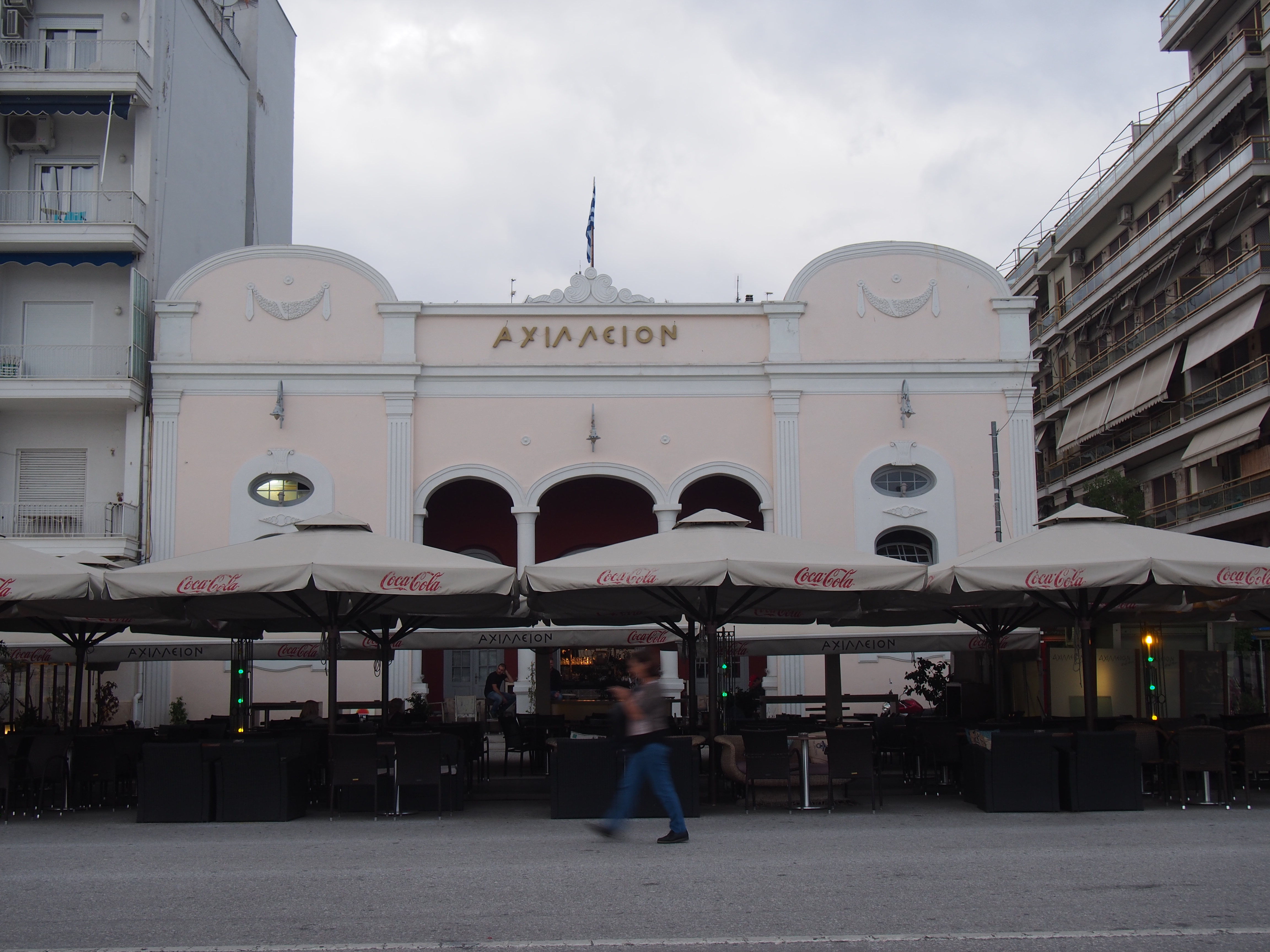 The cine theatre Achilleion in Volos.«Κινηματογράφος Αχίλλειον»